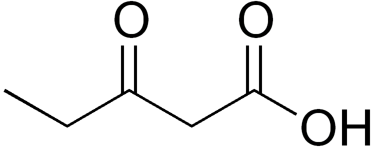 chemical structure of 3-oxopentanoic acid (beta-oxopentanoate)